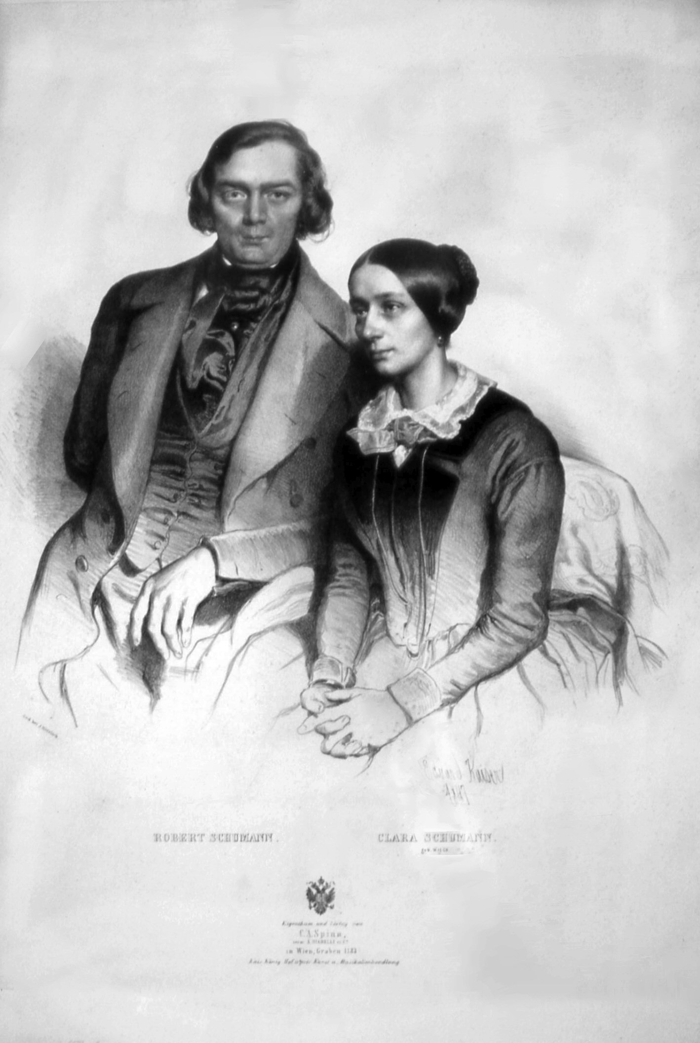 Robert and Clara Schumann (Wiek). Lithograph by Eduard Kaiser.